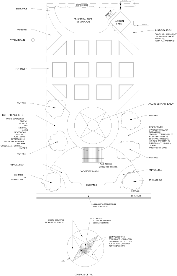 Layout drawing of the Vilage Roots Garden.